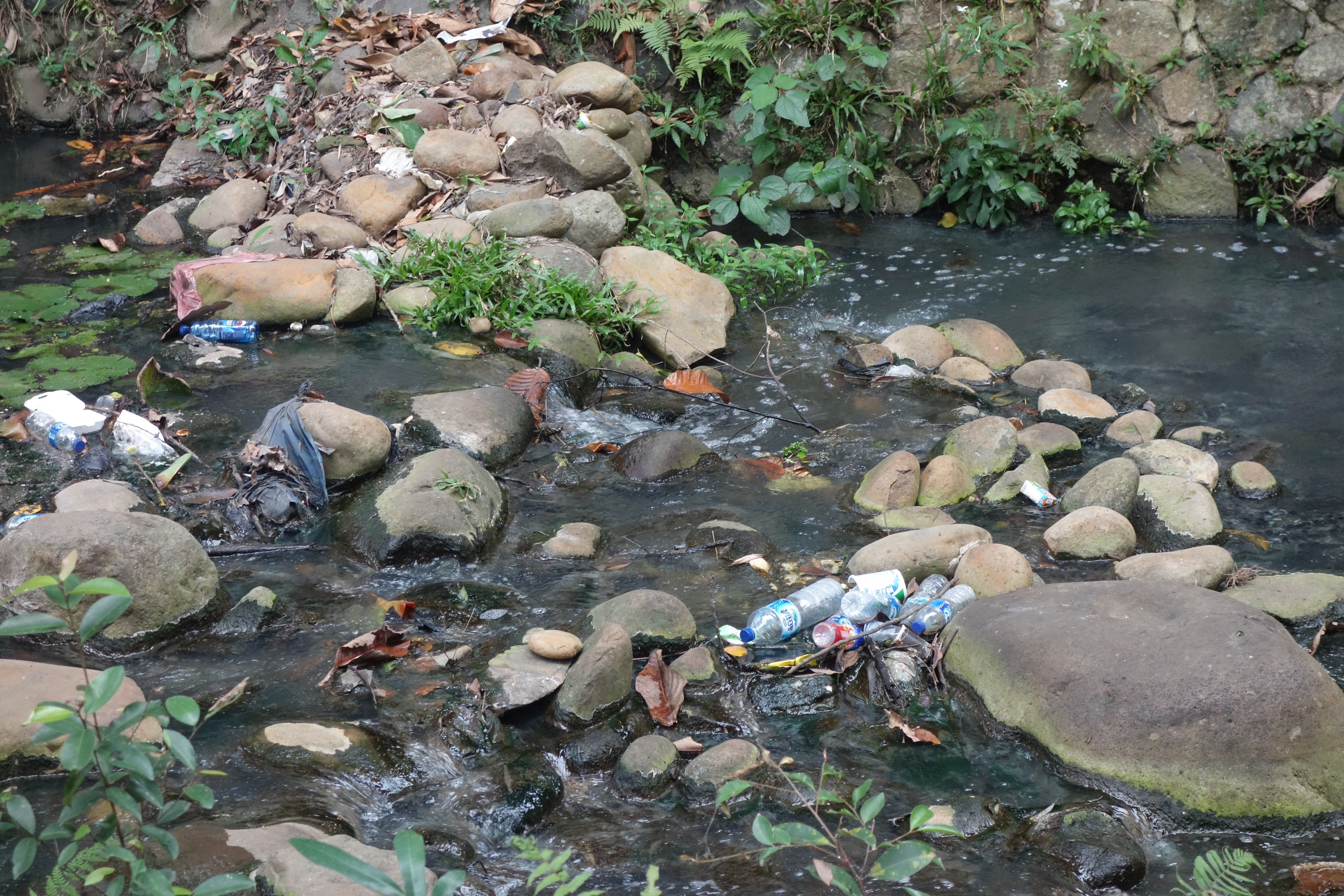 Plastic in the Bogor Botanical Garden, 2018